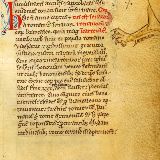 Capture of Brancaleone, Senator of Rome